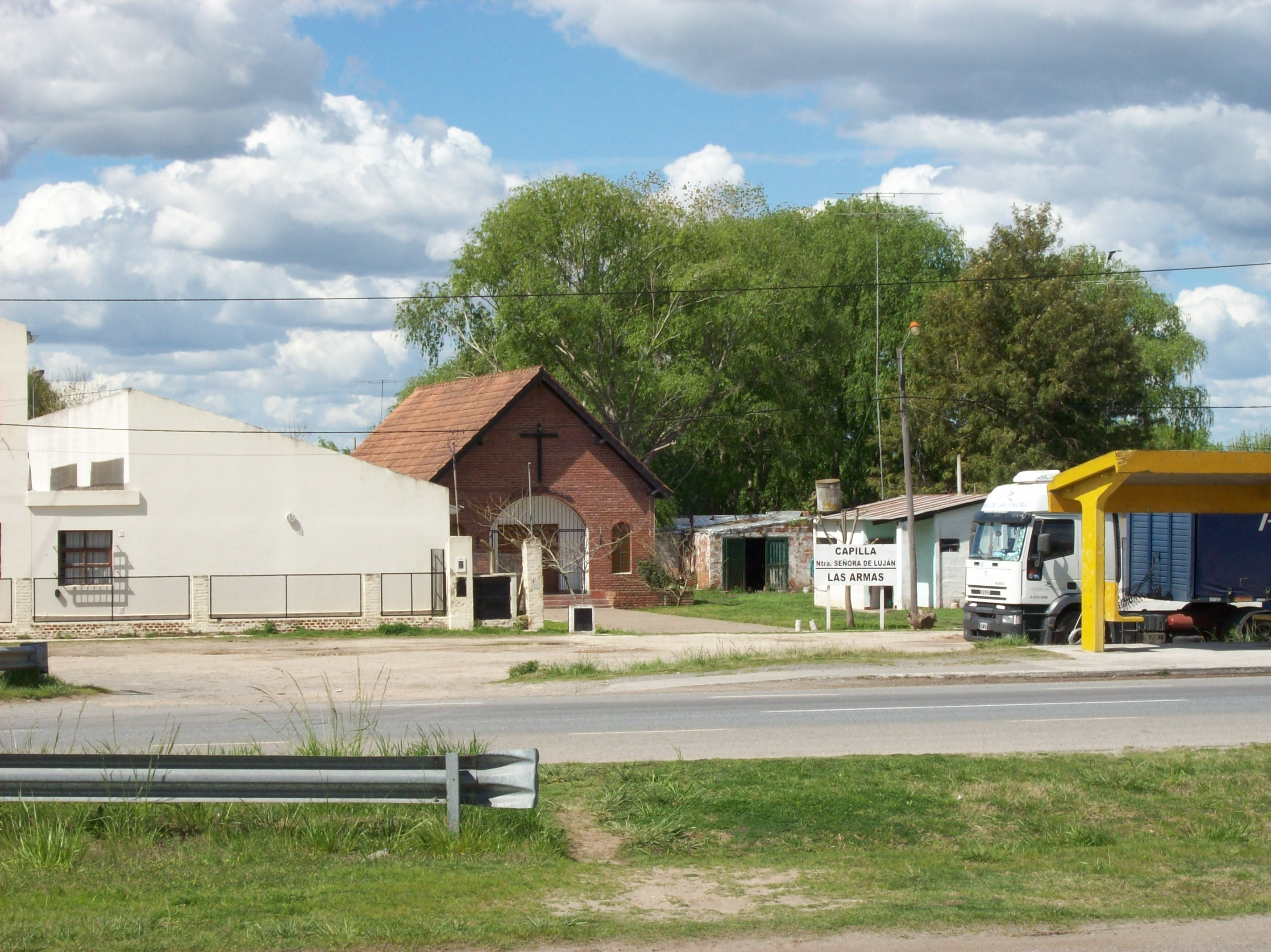 Nuestra Señora de Luján Chapel at Las Armas, Buenos Aires, Argentina.